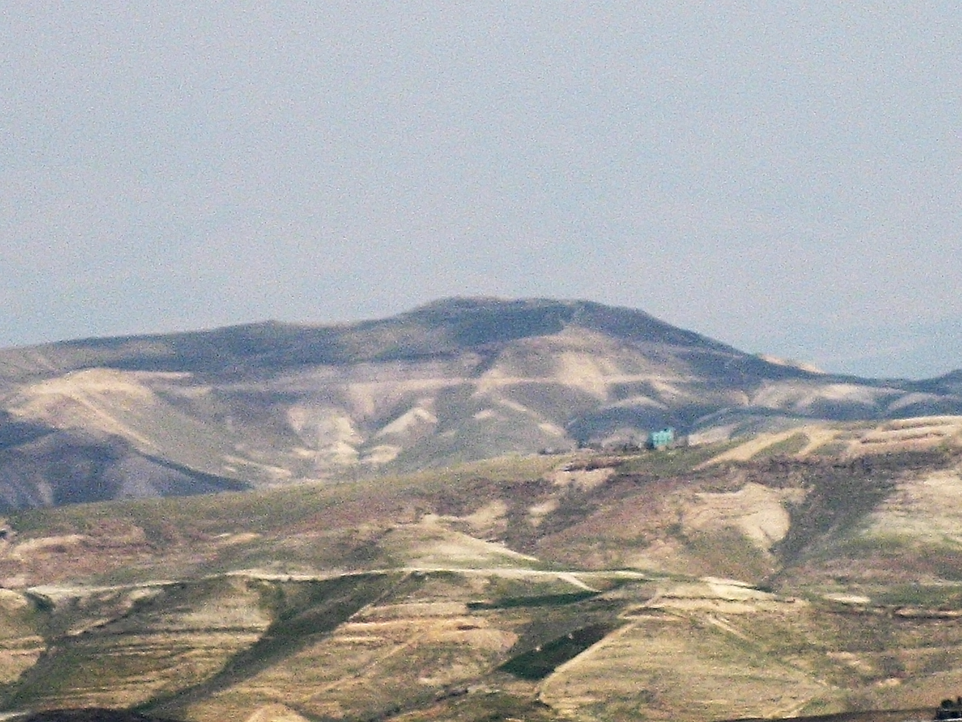 Views from Herodion (Herodyon, Herodium) - view of Mount Azazel (Jabel Muntar) מבט מהרודיון על הר העזאזל (ג'בל מונטאר)